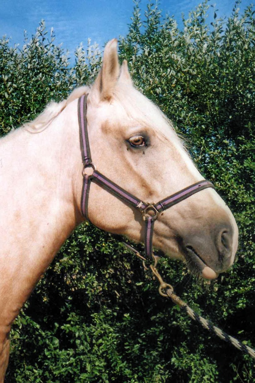 Tori horse gelding